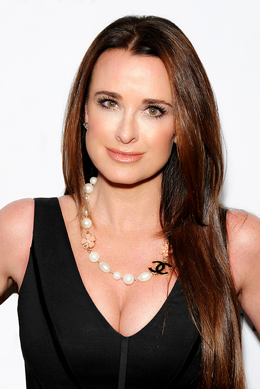 Kyle Richards, Beverly Hills, California on March 16, 2014 - Photo by Glenn Francis of